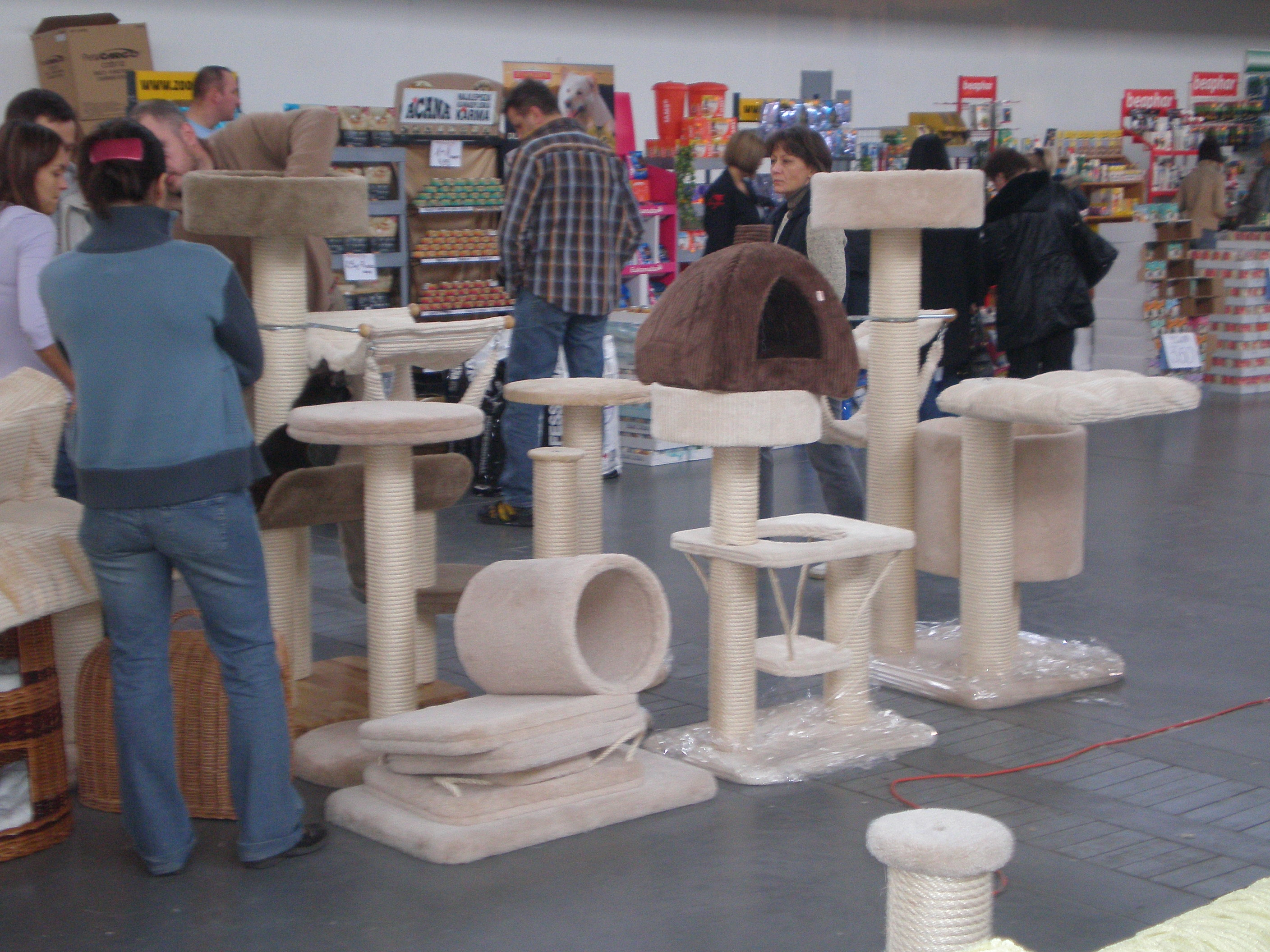 Exhibition of racial cat in Poznań's Word Trade Center